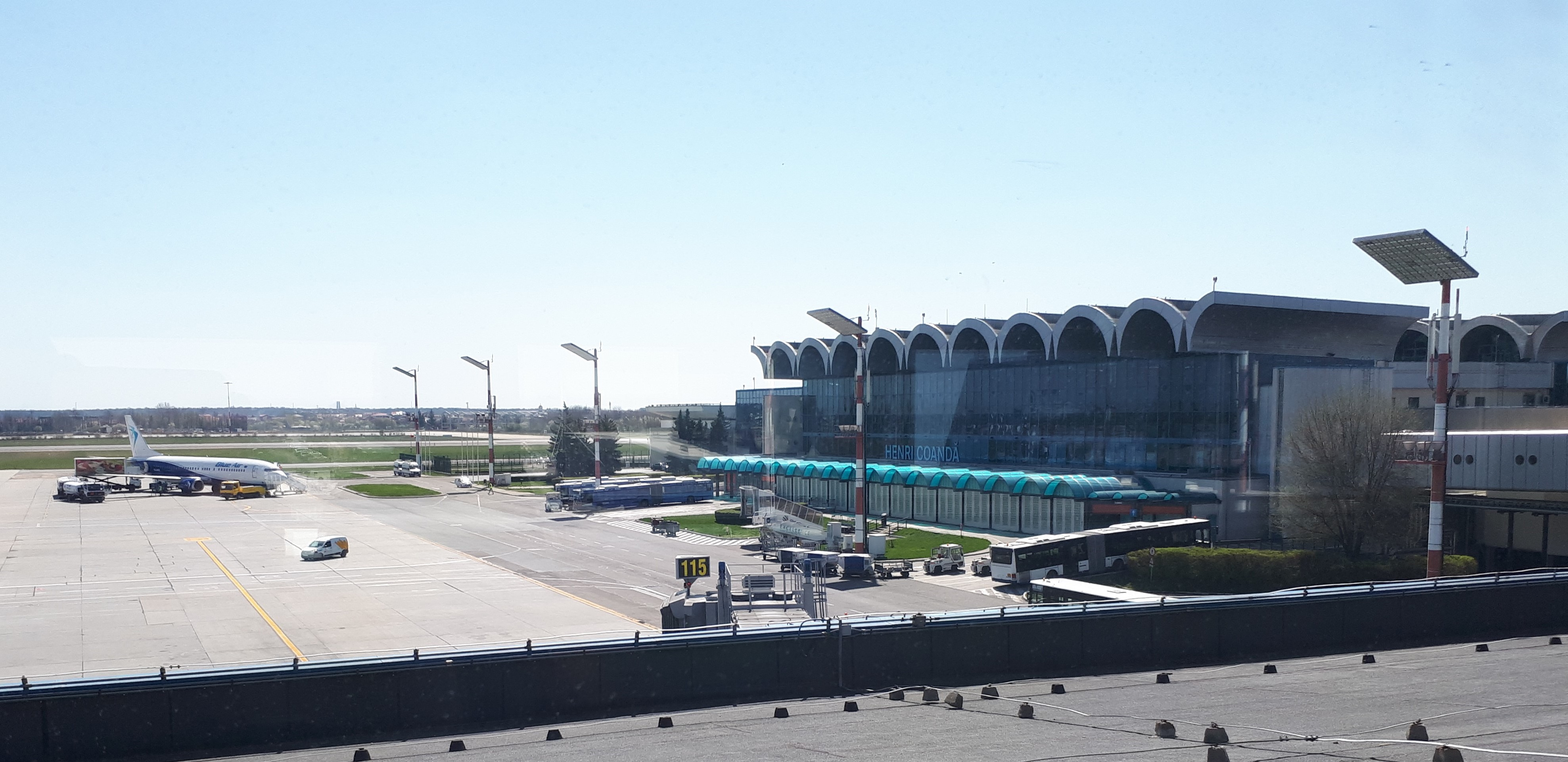 Henri Coanda Airport, April 2018